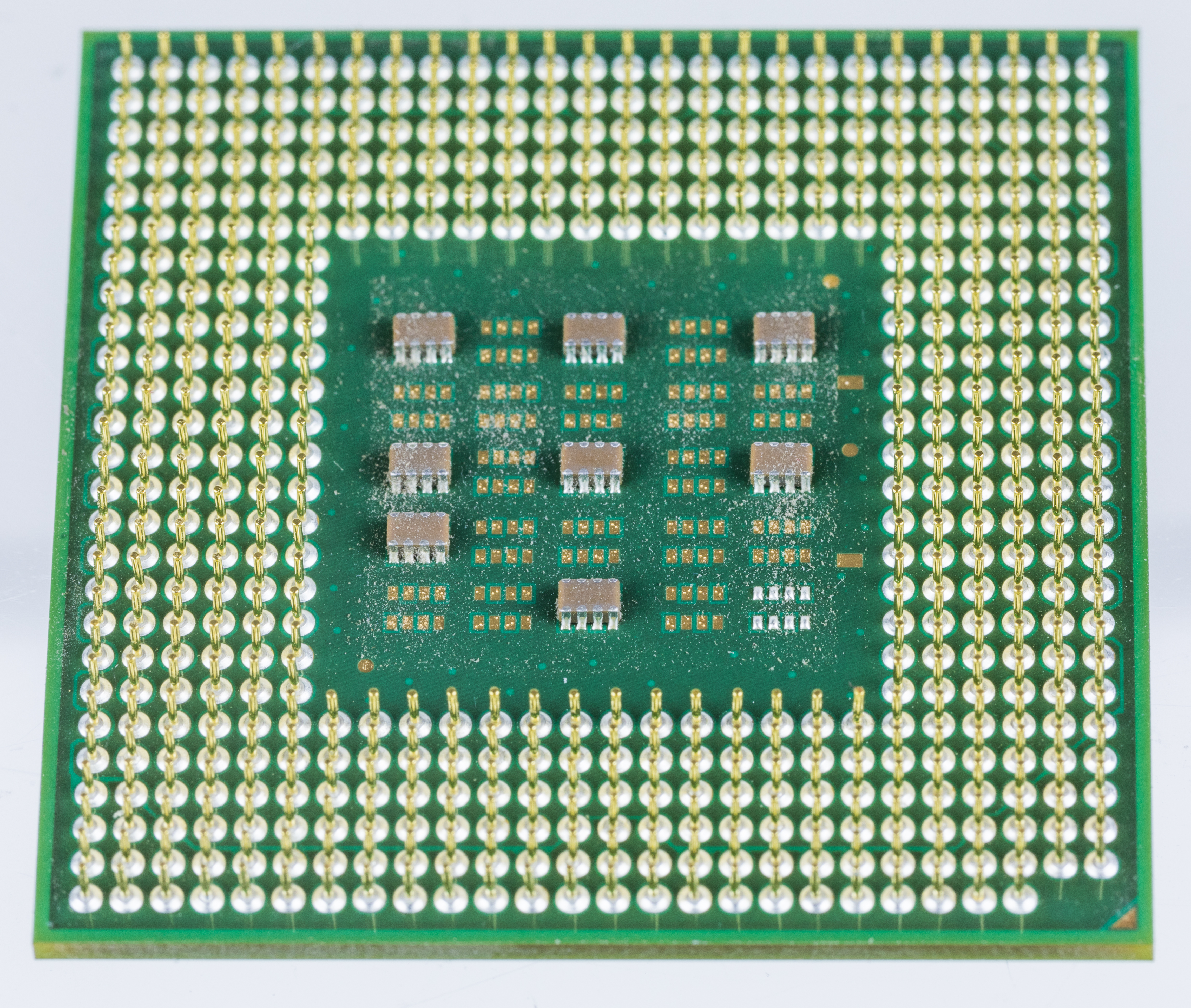 Pentium 4 - SL5TK Willamette with Socket 478 (2001), pin side, from a Compaq Deskpro Evo